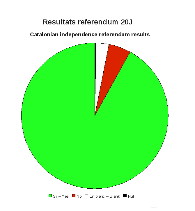 20th June 2010 Catalonian independence referendums, 2009–2010 results.